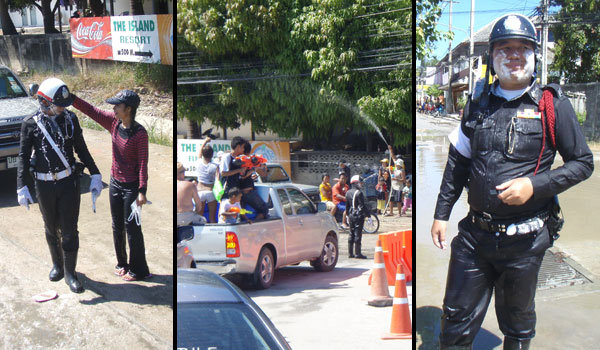 Songkran-collage - wet Thai policemen (Chaweng, Koh Samui, 2008)